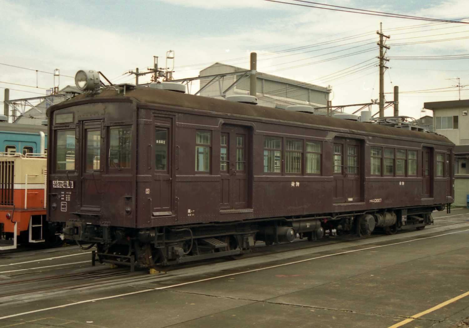 JNR Kumoni13007 EC. This photo was taken at JR East Oi Factory (now Tokyo General Rolling Stock Center)